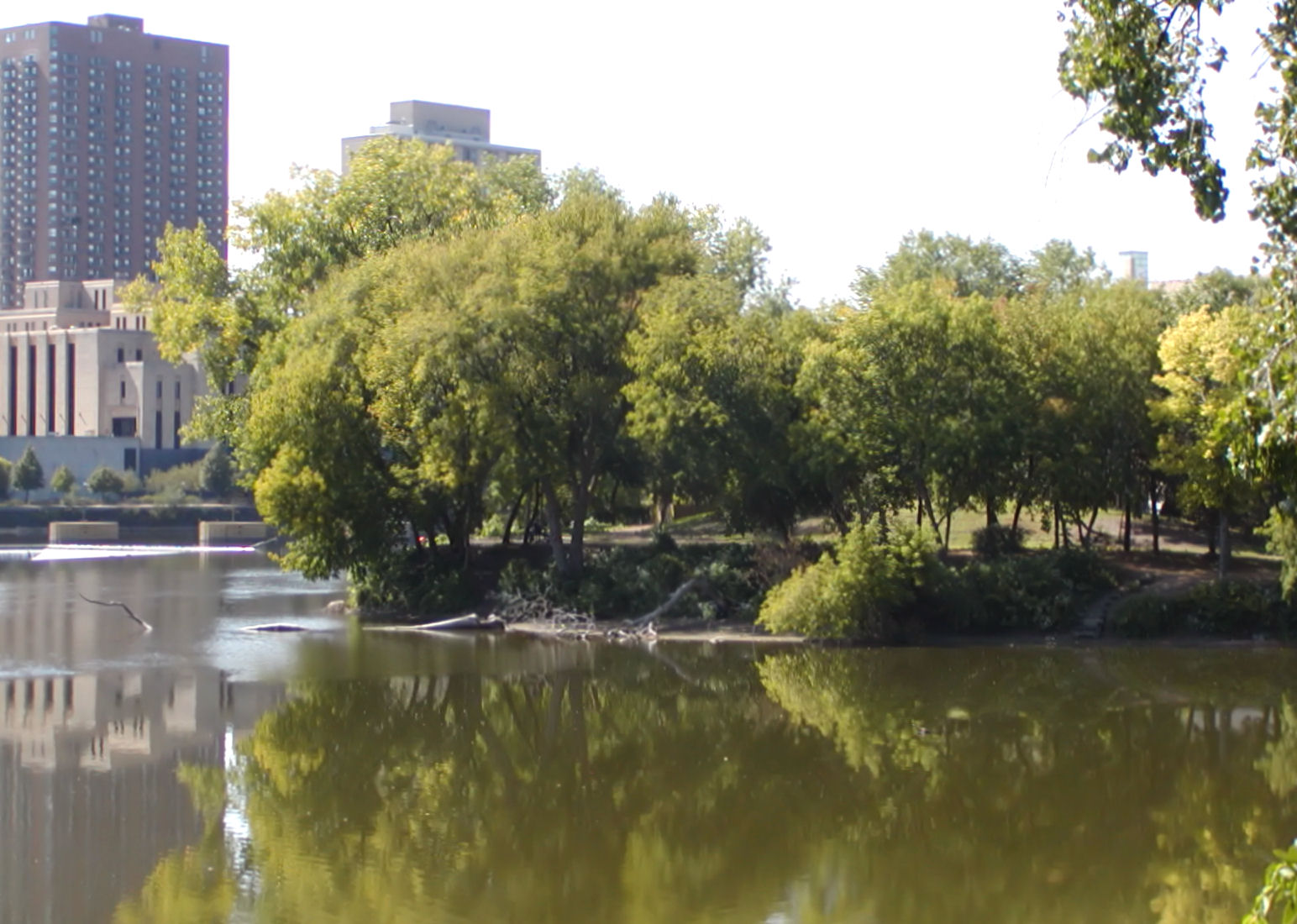 The southern end of Nicollet Island in Minneapolis, Minnesota